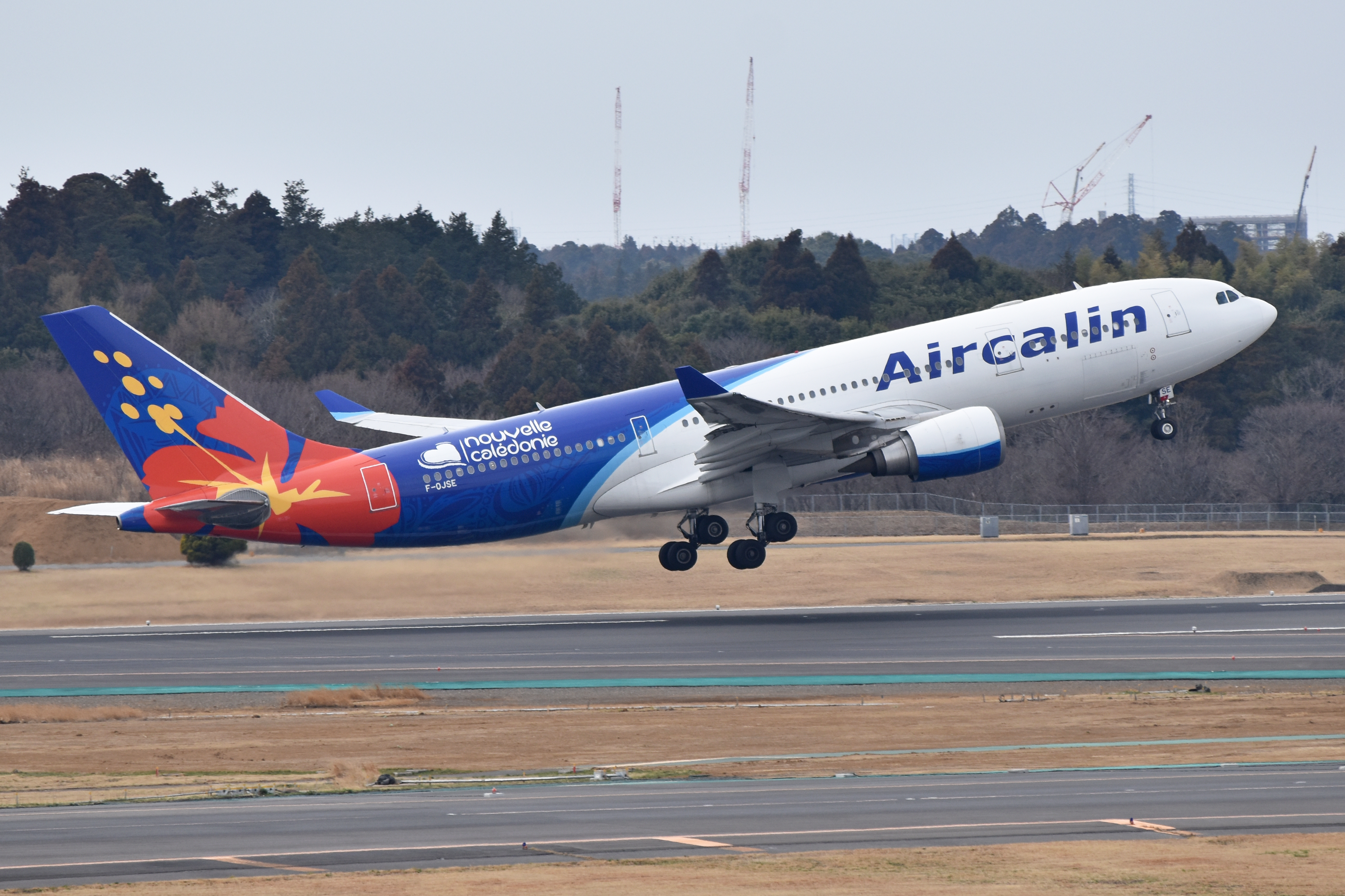 c/n 0510 Built 2002 Departing on flight SB801 / ACI801 to Noumea Seen from Terminal 1 viewing terrace. Narita International Airport Tokyo, Japan 16th March 2019